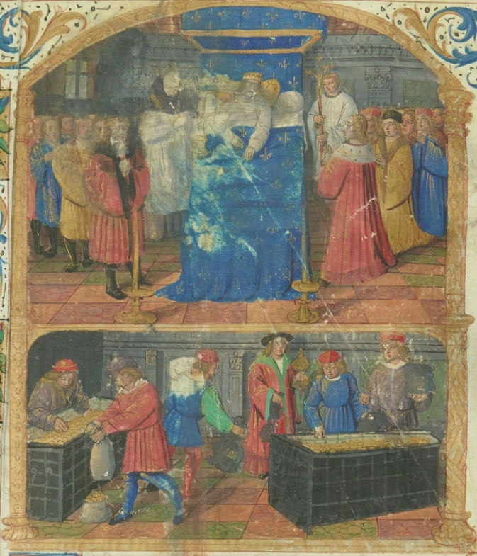 Deathbed of Louis XI